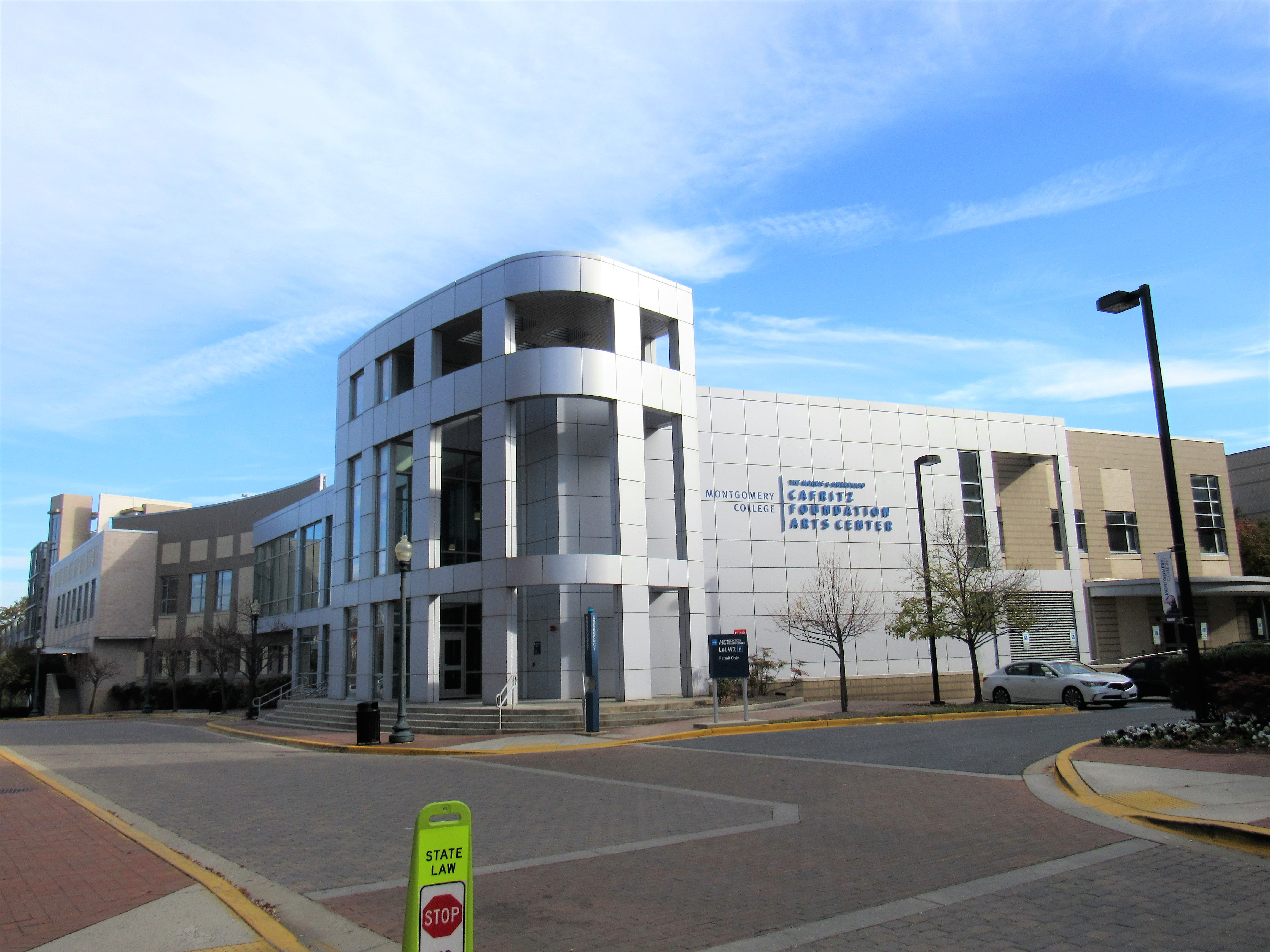 The Morris and Gwendoline Cafritz Foundation Arts Center on the Montgomery College campus in Takoma Park and Silver Spring, Maryland.